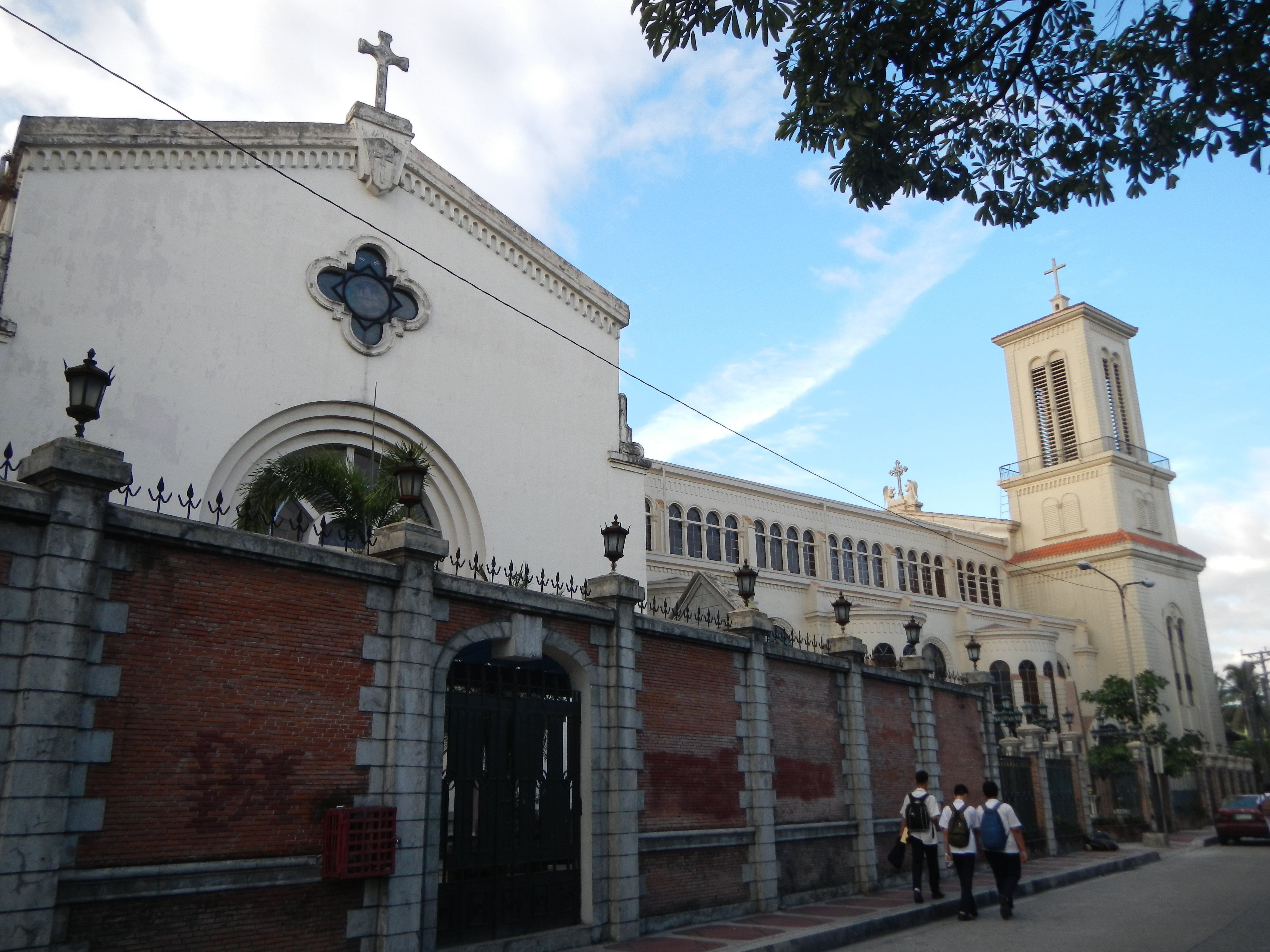 Cubao Cathedral[1], formally known as the Immaculate Conception Cathedral of , is a Roman Catholic church located in Quezon City, Metro Manila, the Philippines. It is the cathedral of the Roman Catholic Bishop of Cubao [2]. It was built in 1950 by the Society of the Divine Word, belonging to them until 1990 when the Archdiocese of Manila took over its administration. In 2003, it became the cathedral when the Diocese of Cubao was erected. The present rector of the cathedral is Rev. Fr. Ariston L. Sison, Jr., SCSL.[3]